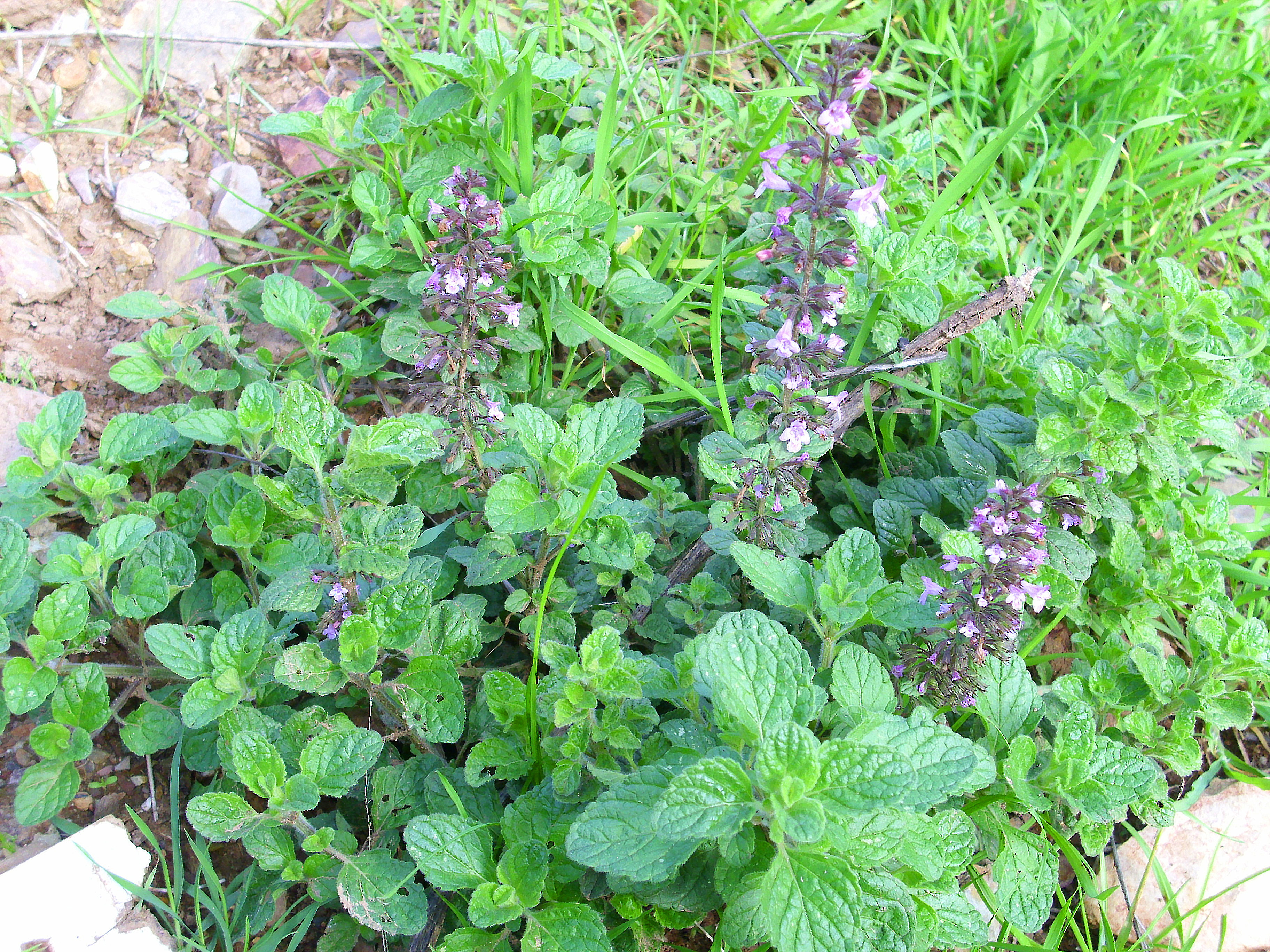 Micromeria fruticosa habit, Sierra Madrona, Spain